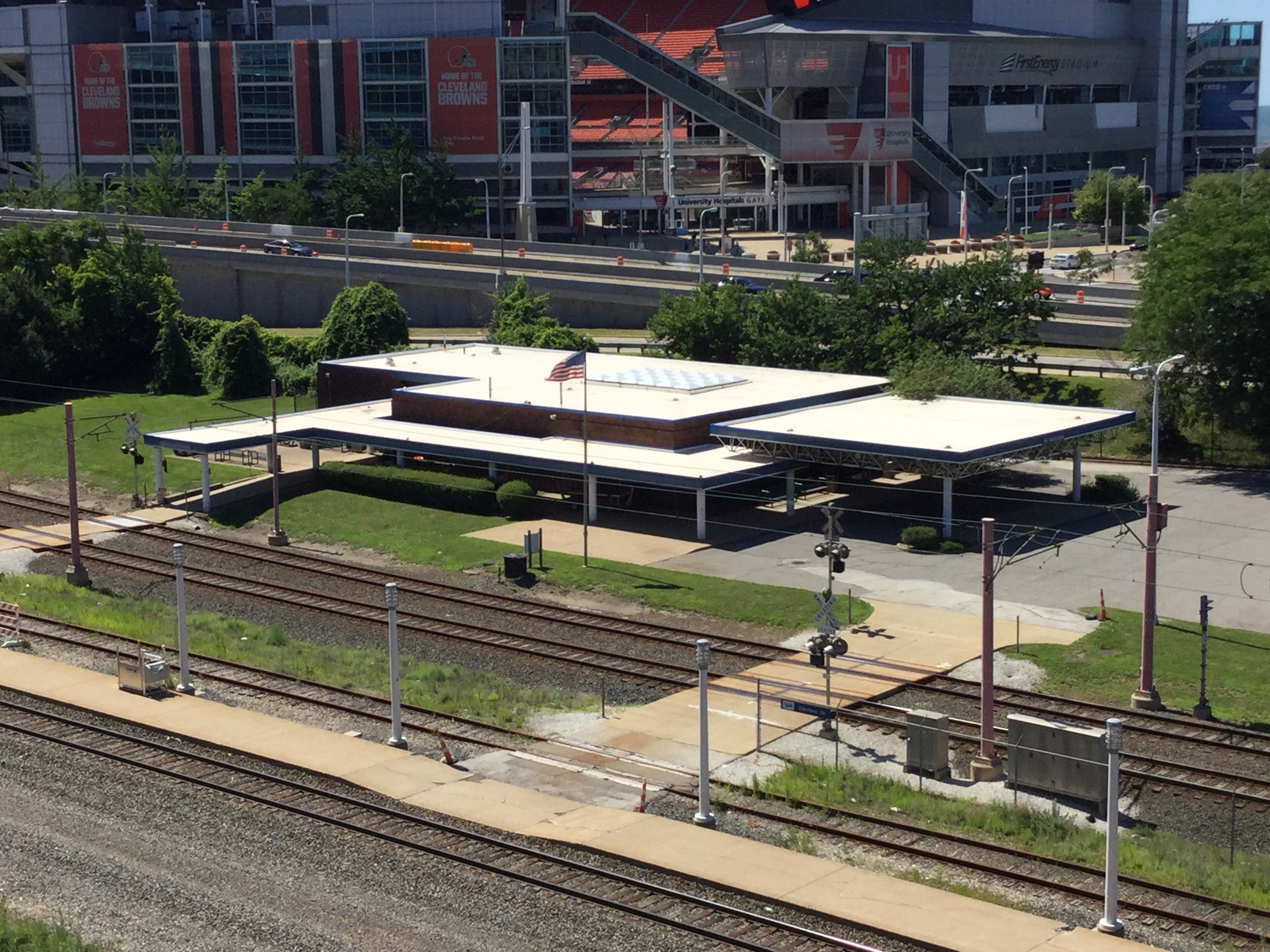 RTA file batch - July 8, 2018